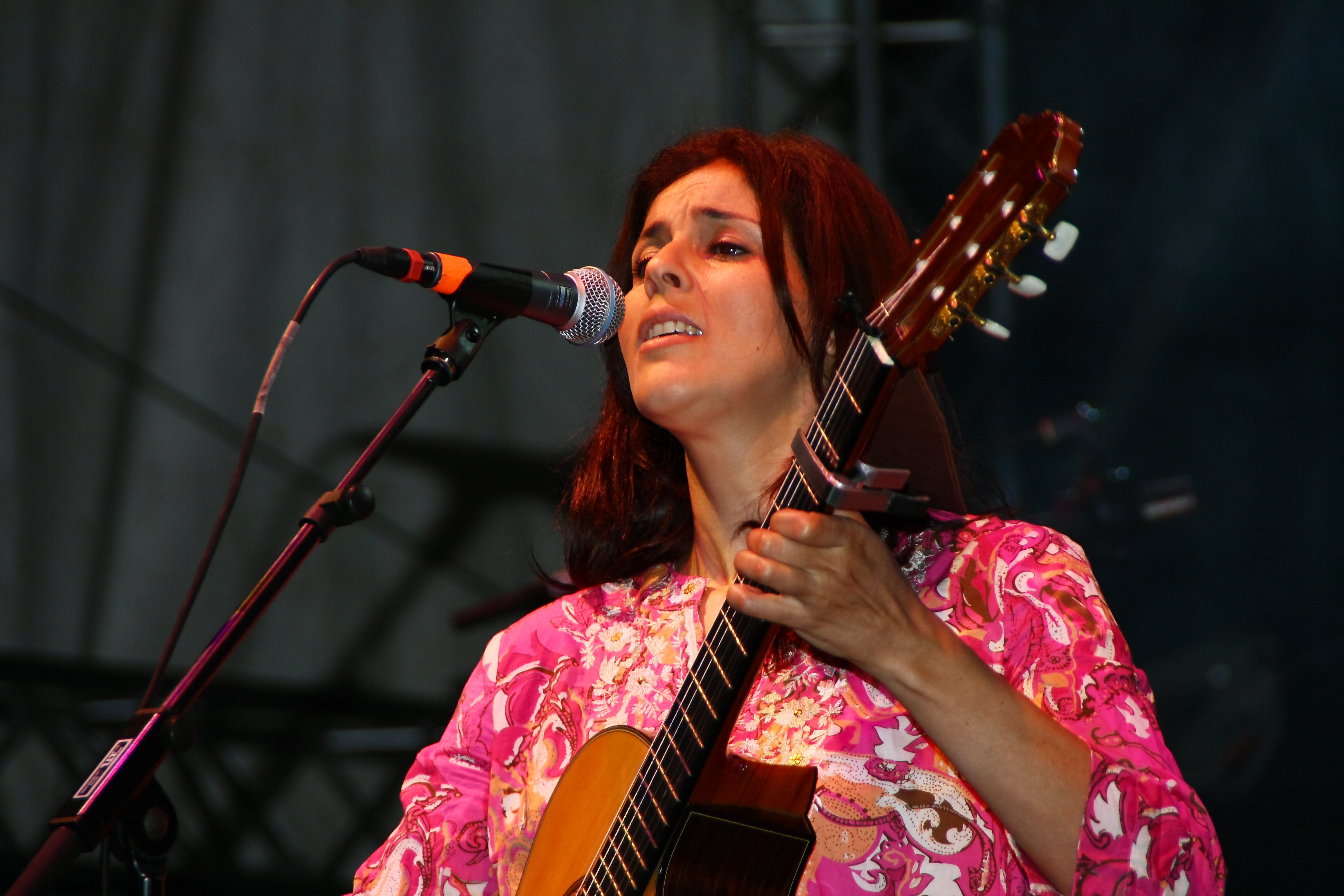 Souad Mass and her Band at TFF Rudolstadt 2013.